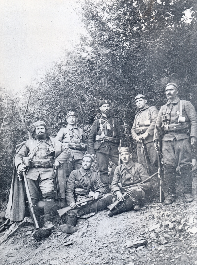 Portrait of Todor Alexandrov and his cheta.